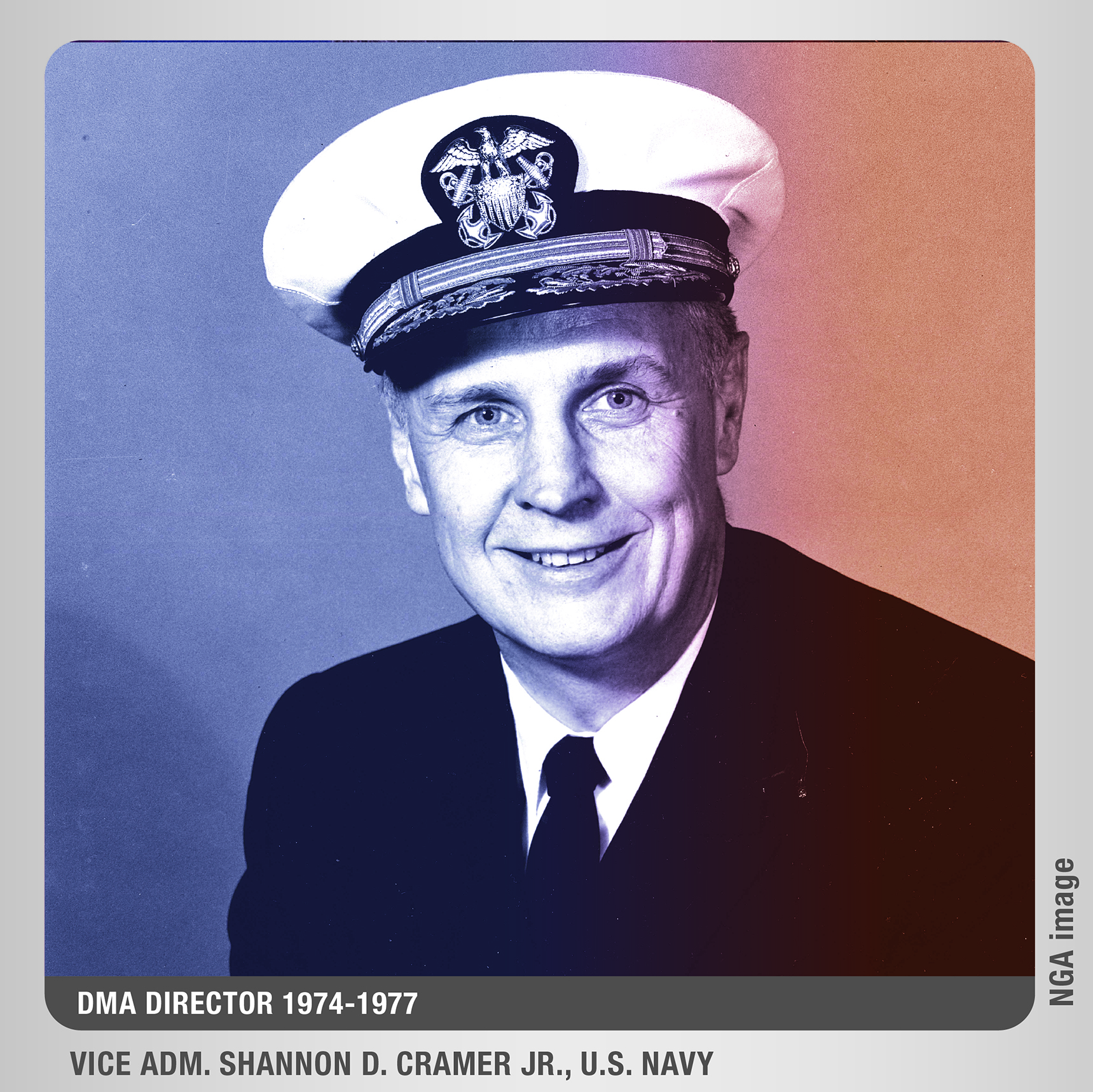 Shannon D. Cramer Jr. is a retired U.S. Navy Vice Admiral. He was second director of the Defense Mapping Agency from September 1974 to August 1977.